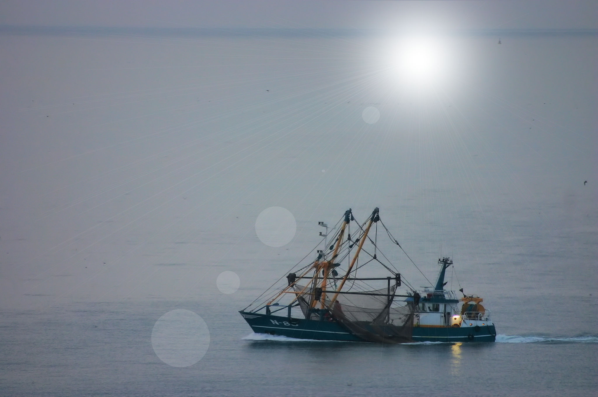 A fishing boat goes out for fishing.